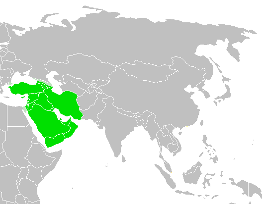 The map of Southwest Asia region